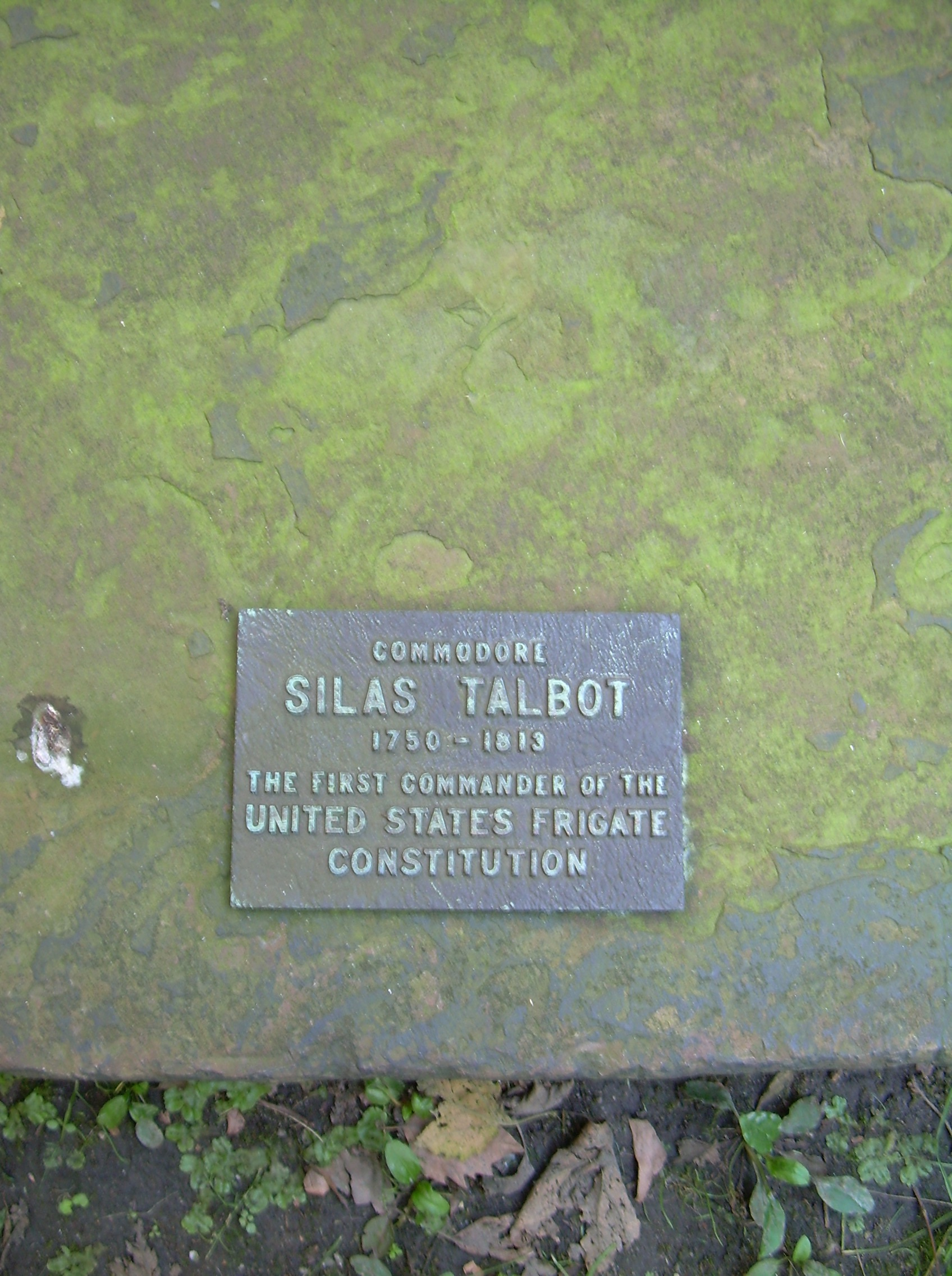 This photo is of Wikis Take Manhattan goal code G17, Silas Talbot.